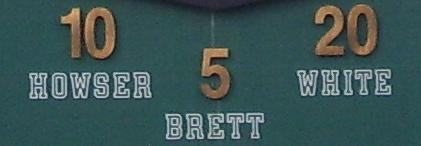 The Royals' retired numbers underneath the scoreboard at Kauffman Stadium.